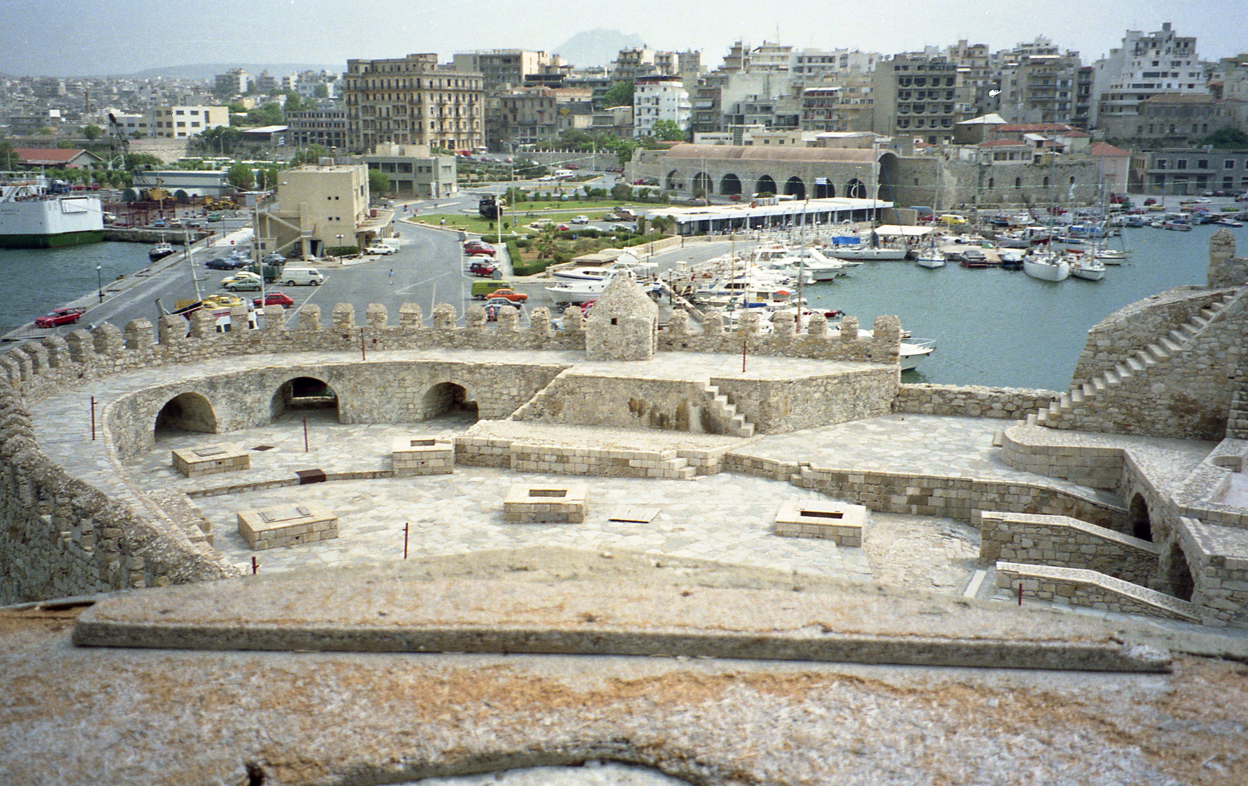 The port of Heraklion seen from Koules fortress (Rocca al Mare)